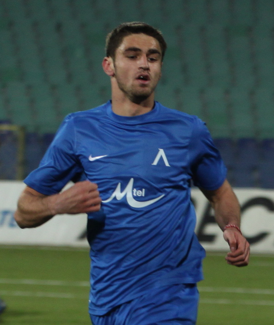 Daniel Dimov (Bulgarian: Даниел Димов; born January 21, 1989 in Shabla) is a Bulgarian football midfielder, who currently plays for Levski Sofia.